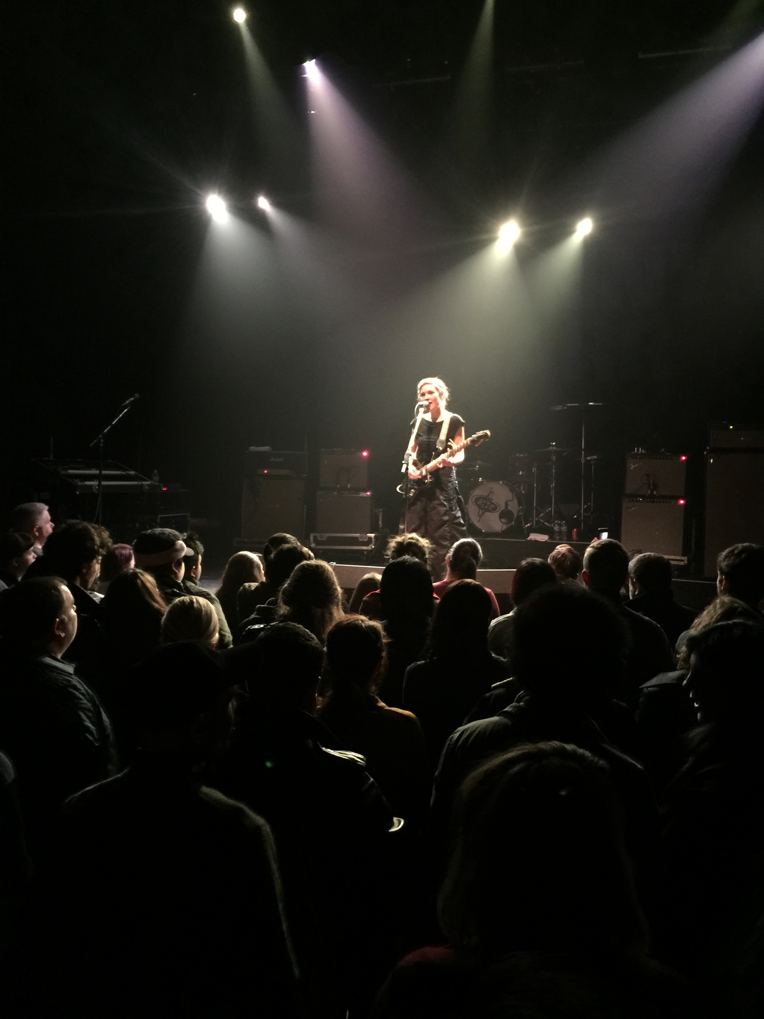 Meredith Sheldon at The Vic Theatre, Chicago, 25 November 2014. She opened for Johnny Marr.